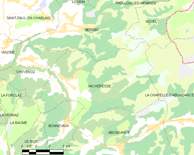 Map of French municipality Vacheresse